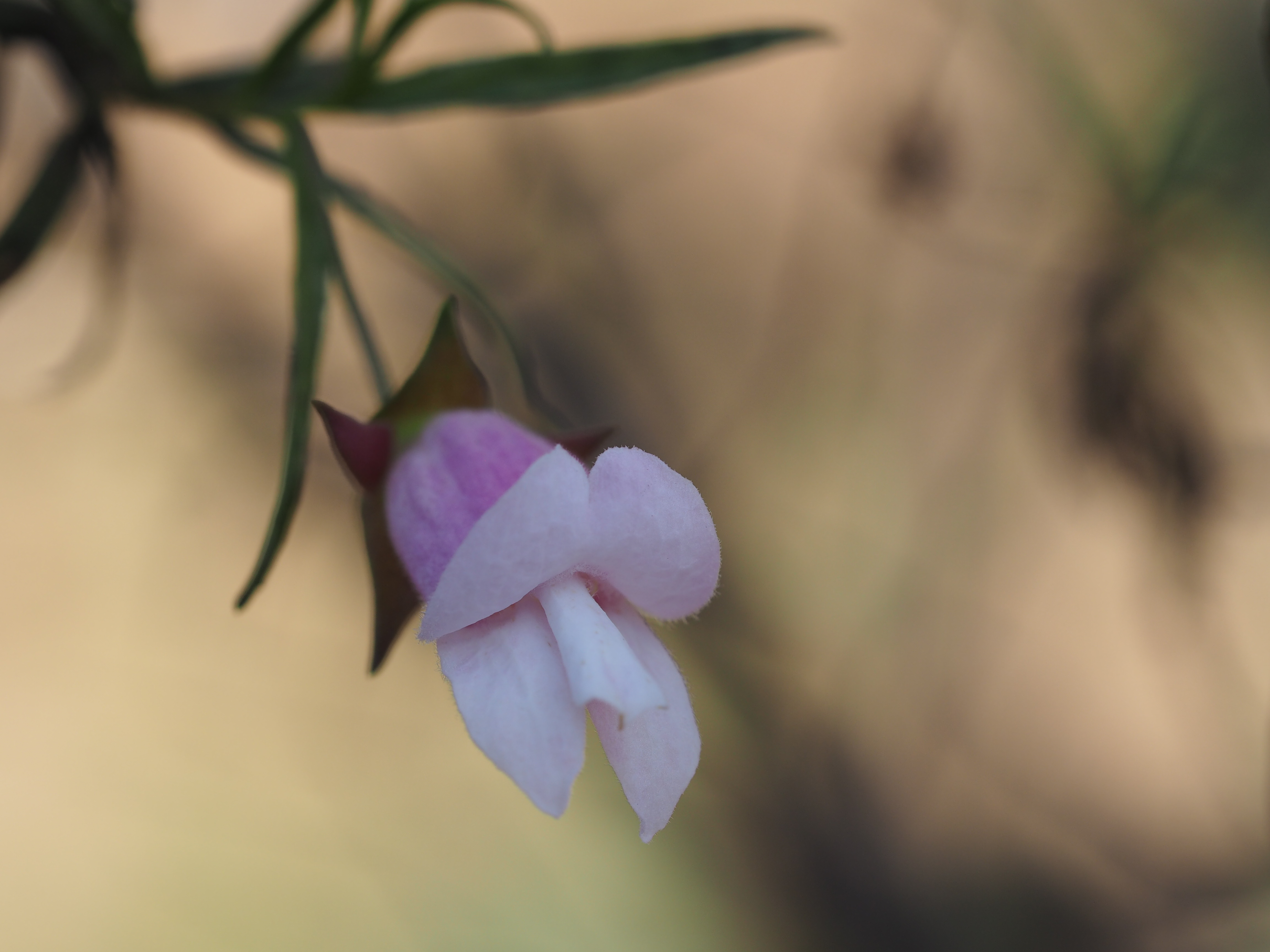 Eremophila granitica flower